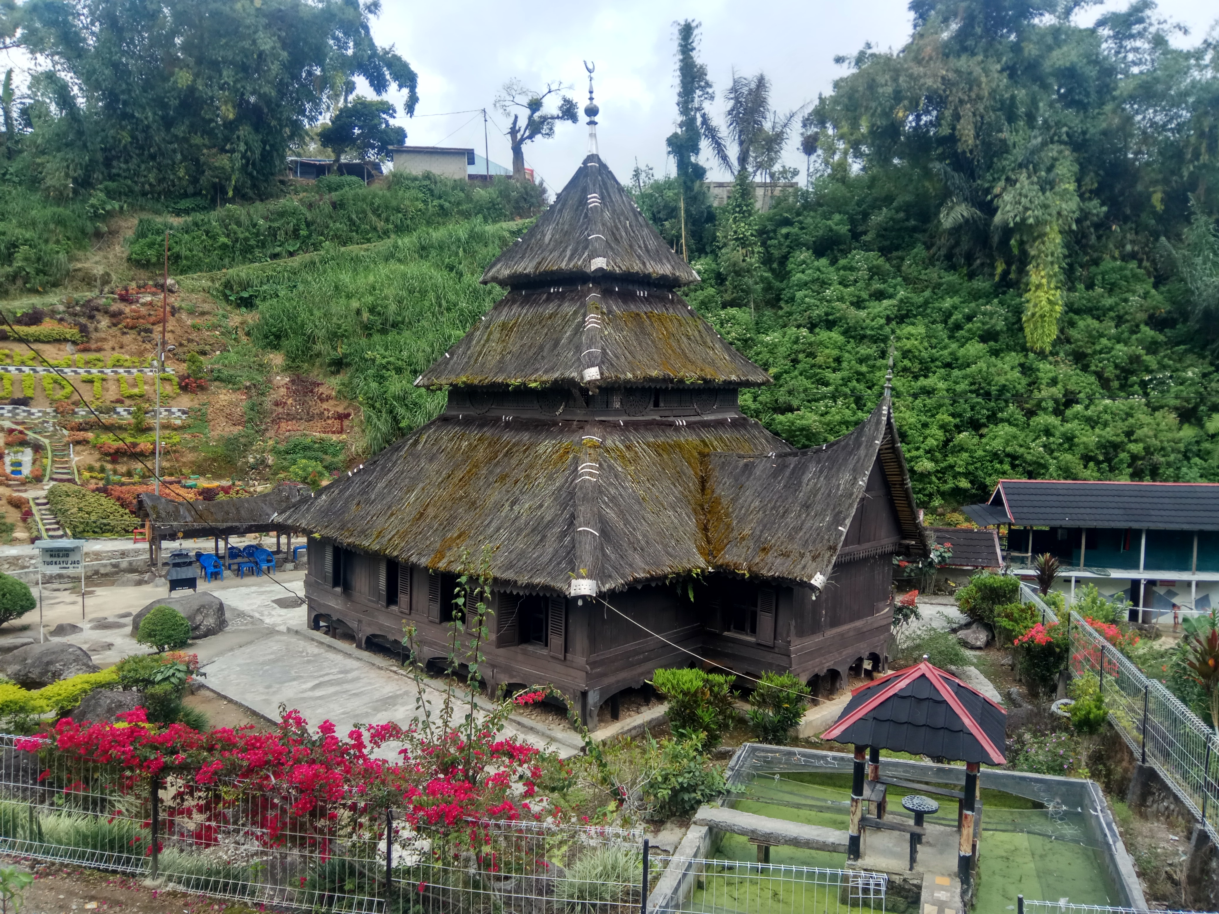 Masjid Tuo Kayu Jao 2019 Mar (1)